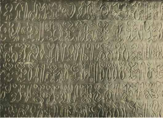 A closeup of a rongorongo tablet.